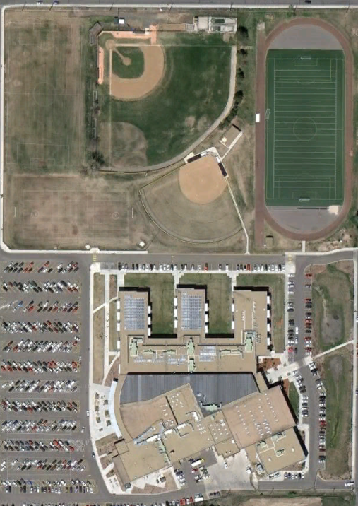 Picture of Lakewood High School's new building.